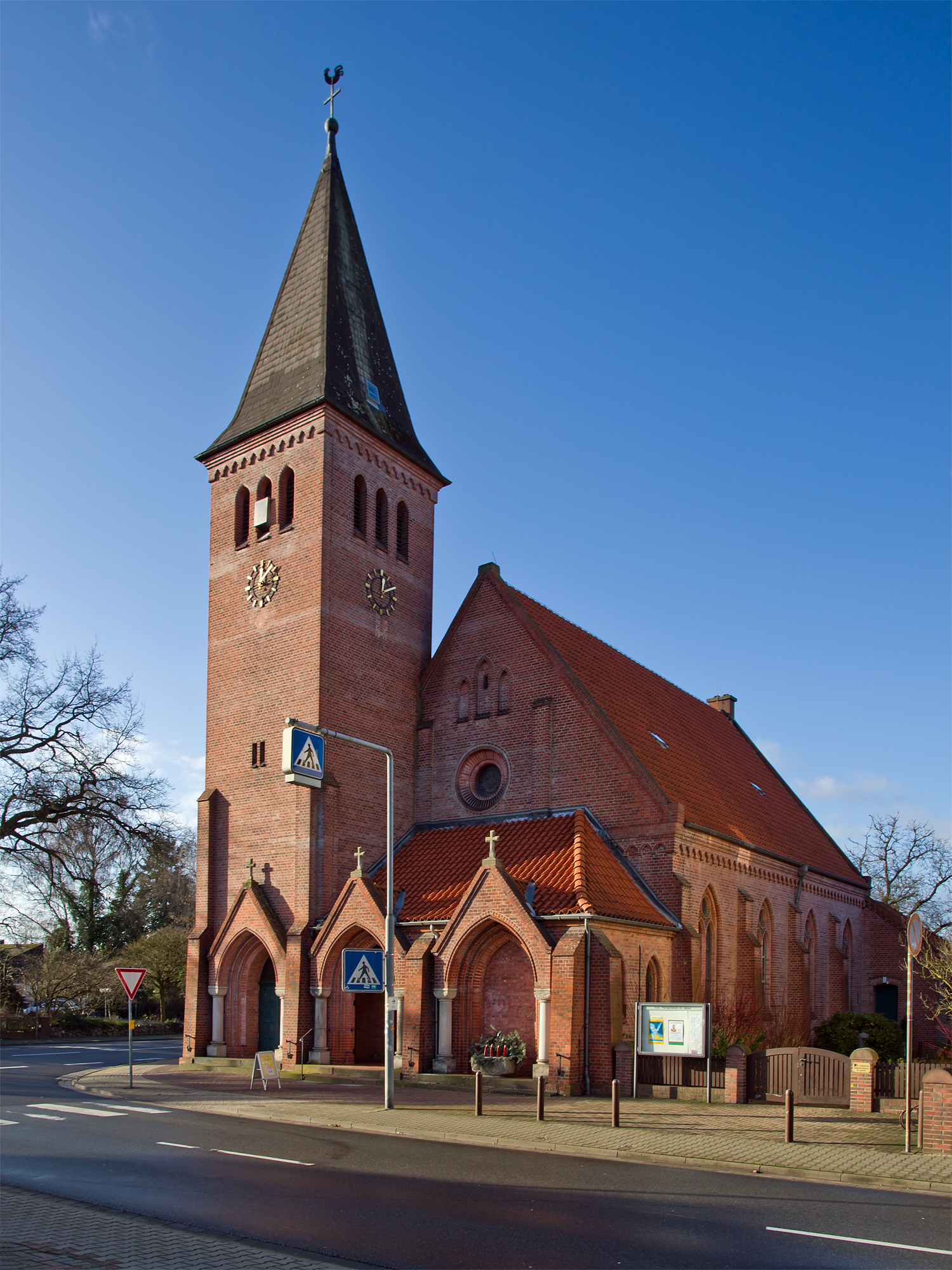 Catholic church in the small town Lüchow (district Lüchow-Dannenberg, northern Germany).